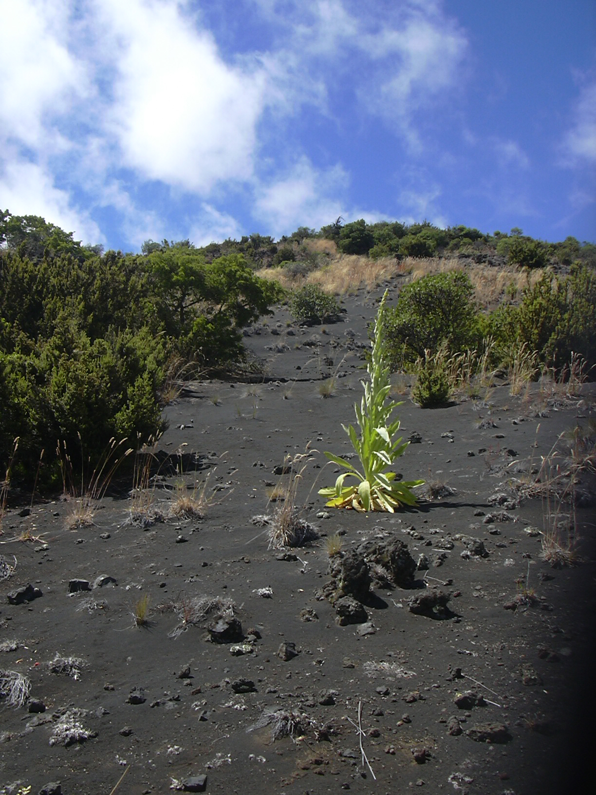 Verbascum thapsus (habit). Location: Hawaii, Puu Kole